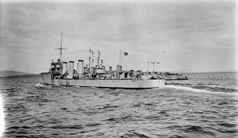 Photograph of British Admiralty M class destroyer HMS Minion.